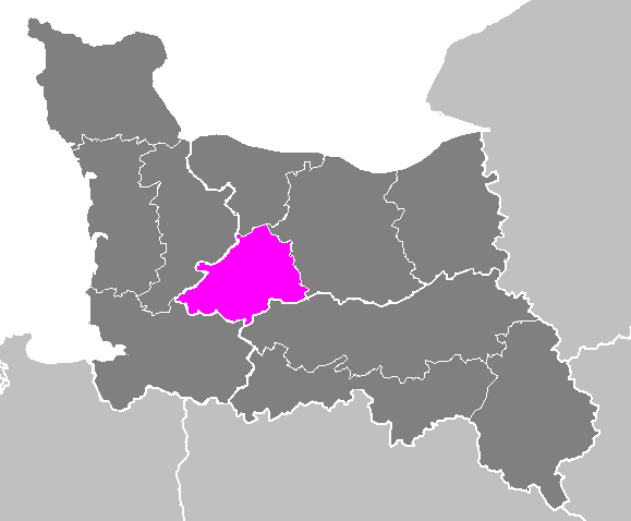 Maps of arrondissements and cantons of France: Arrondissement de Vire.PNG